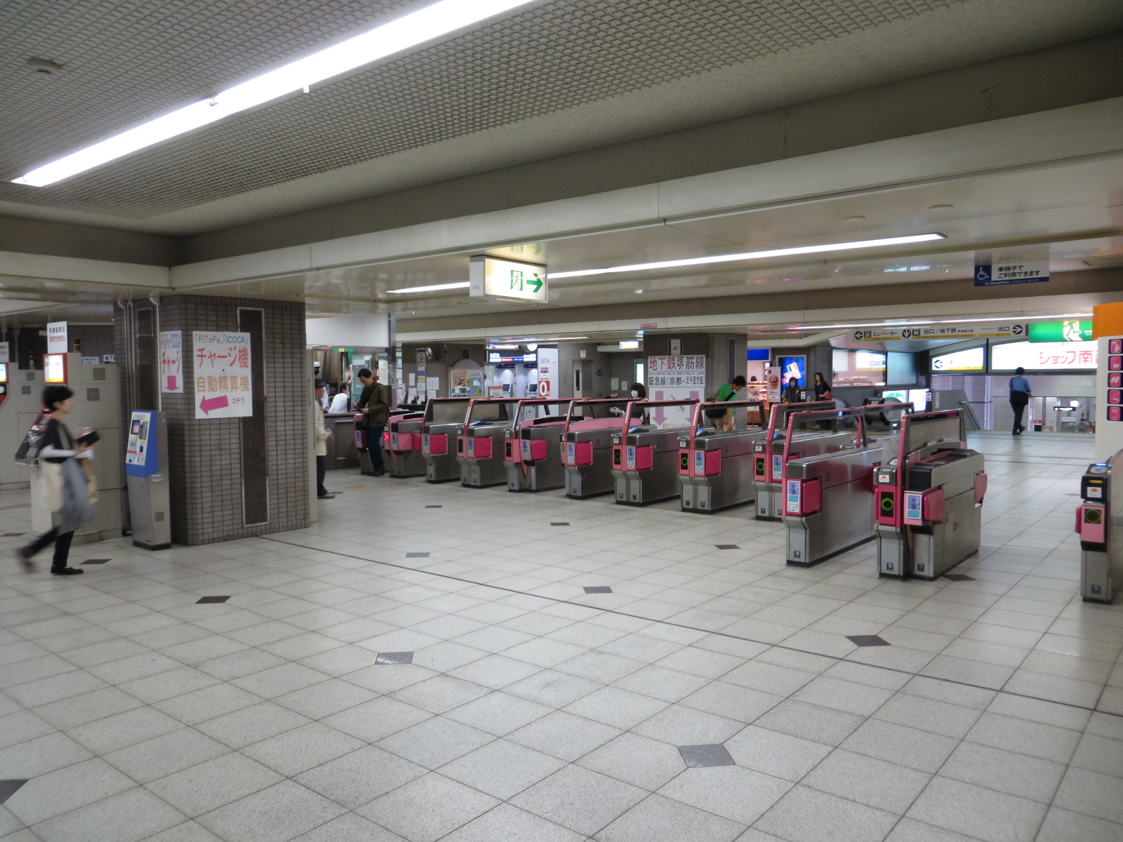 Ticket barrier (Nankai Main Line) from Tengachaya Station.